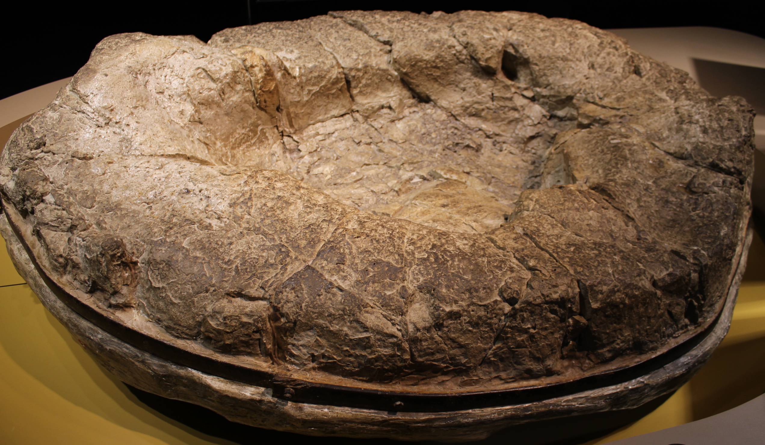 Glen Rose Sauropod Footprint (Brontopodus birdi) Early Cretaceous, 115-112 million years ago. Collecdted Somervell County, Texas